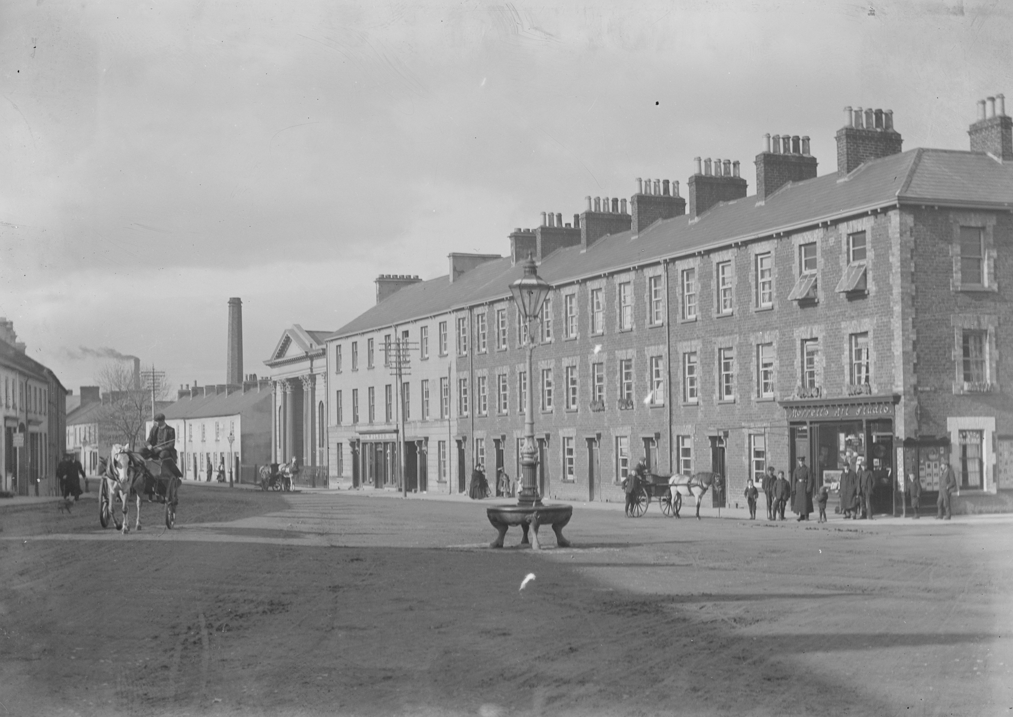 This lovely shot shows an idyllic scene of days gone by with watchers and non-watchers aplenty! It even has a dog to satisfy DannyM8. Surprising to see an Eason photo featuring another photographers premises (Moffett's) so prominently, perhaps Moffett sold some Eason products. I notice on the streetview that the chimney in the background is gone, we will have to start a search to find one that is still in existence. Does anyone read these updated summaries? If you do please leave a comment below saying "I read the summaries". Thanks Mary. Photographer: Unknown Collection: Eason Photographic Collection Date: 1900 -1939 NLI Ref: EAS_0093 You can also view this image, and many thousands of others, on the NLI’s catalogue at